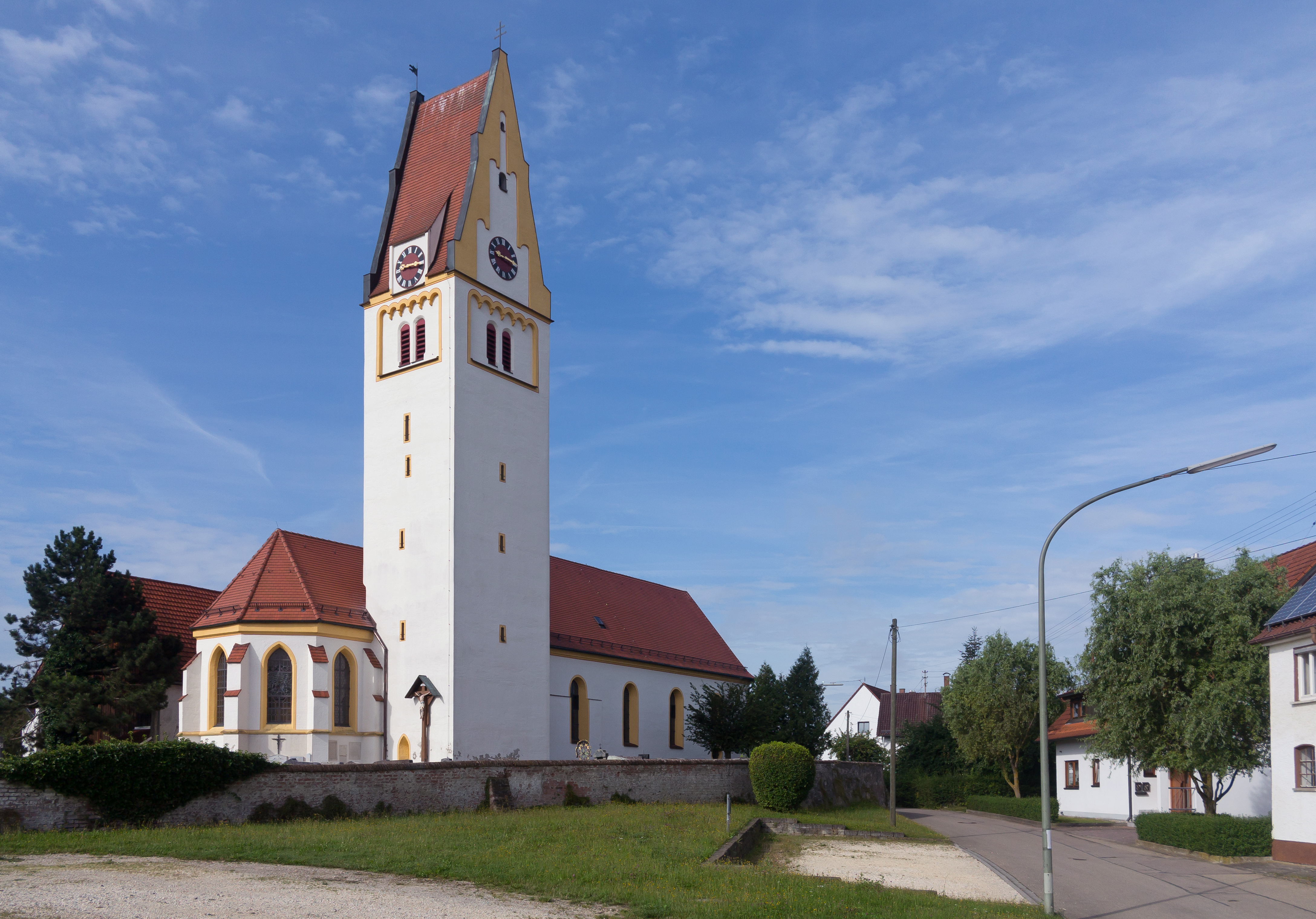 Oberfahlheim, church: die katholische Pfarrkirche Sankt DionysiusThis is a photograph of an architectural monument.